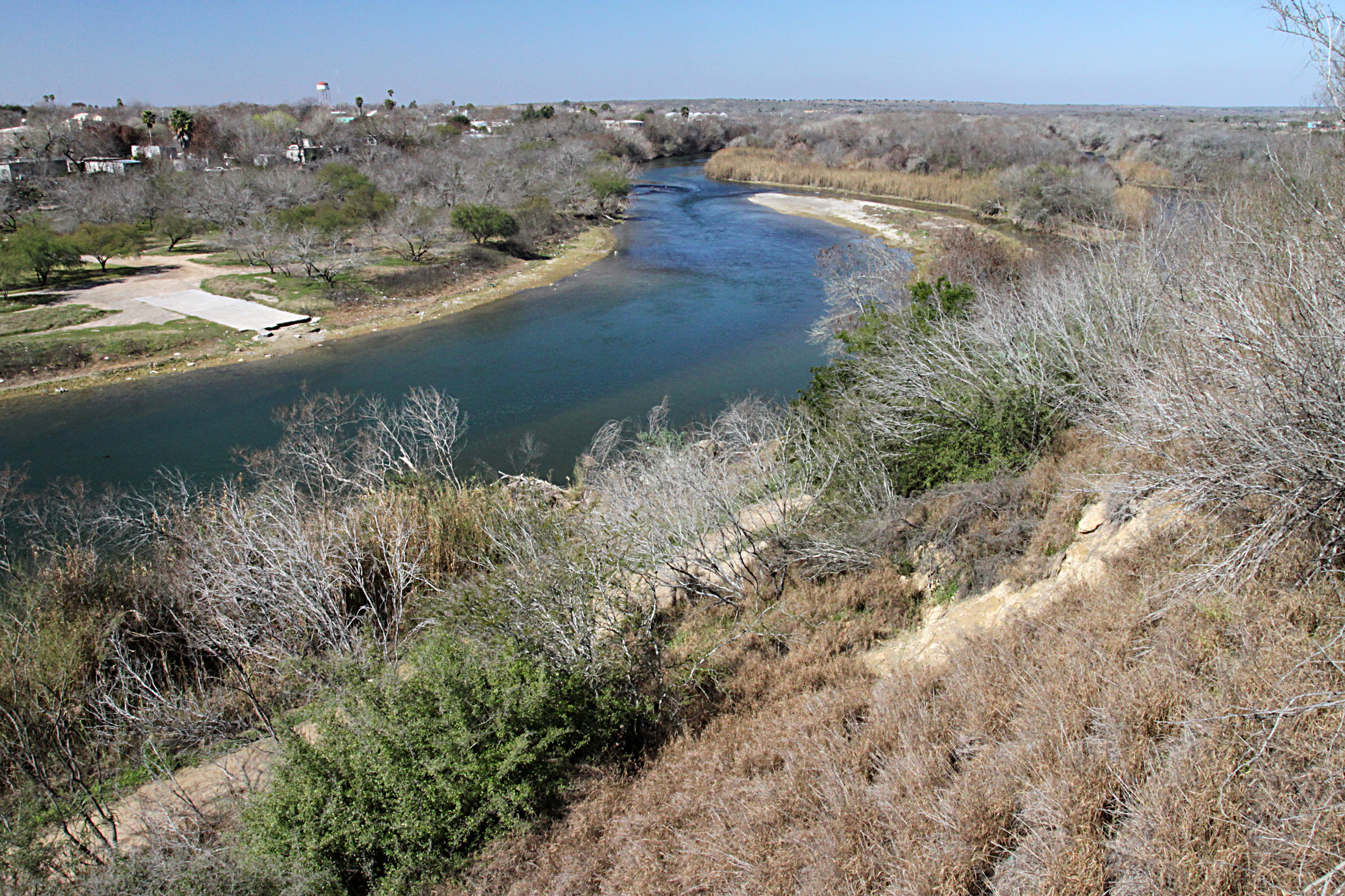 TEXAS & SOUTHERN NM BIRDS & STUFF